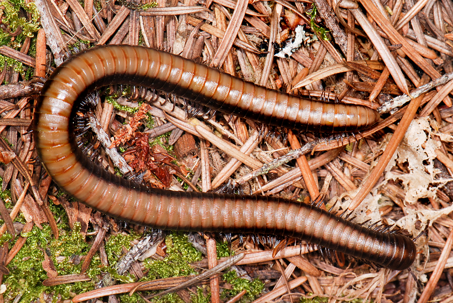 from forest along Scott River thanks to Rowland Shelley for the ID!!